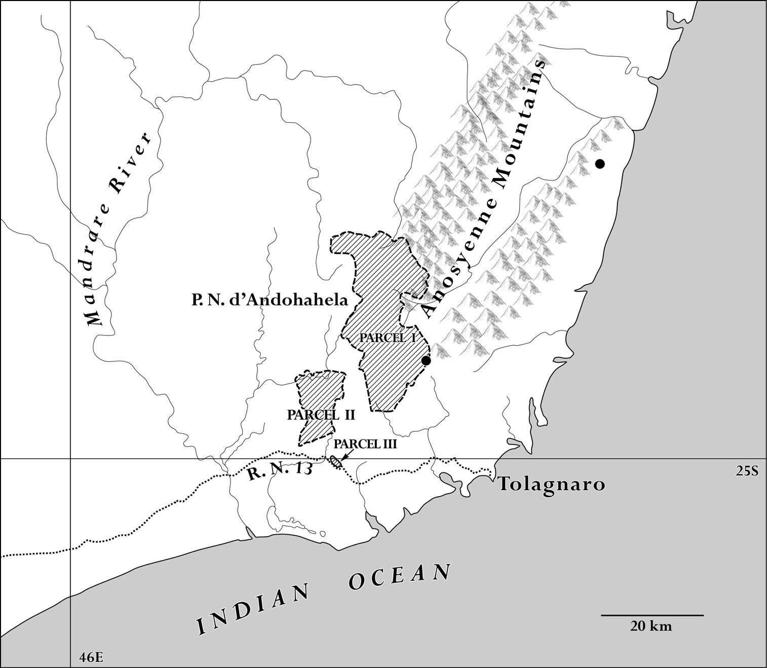 Map of extreme southeastern Madagascar showing where Nesogordonia tricarpellata Skema & Dorr has been collected and these two localities in relation to the three parcels that comprise the Parc National d’Andohahela.